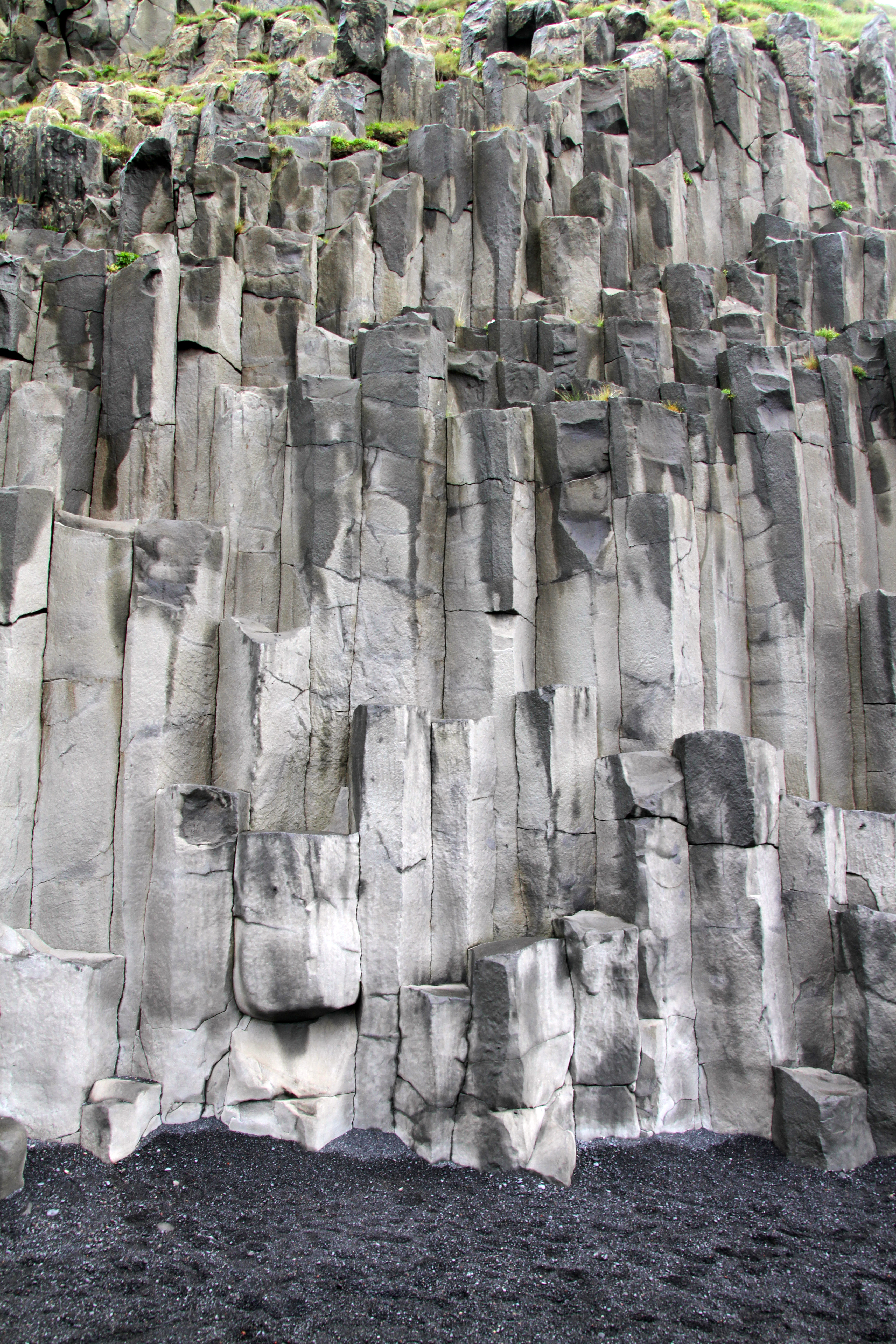 Columnar basalts at Reynisfjara